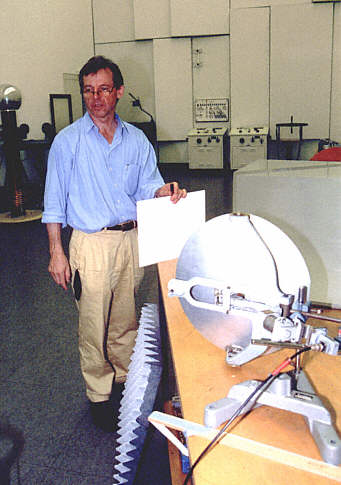 Günter Nimtz in the Physics lab in the University of Cologne, before demonstrating his quantum tunneling experiment to me in September 1999